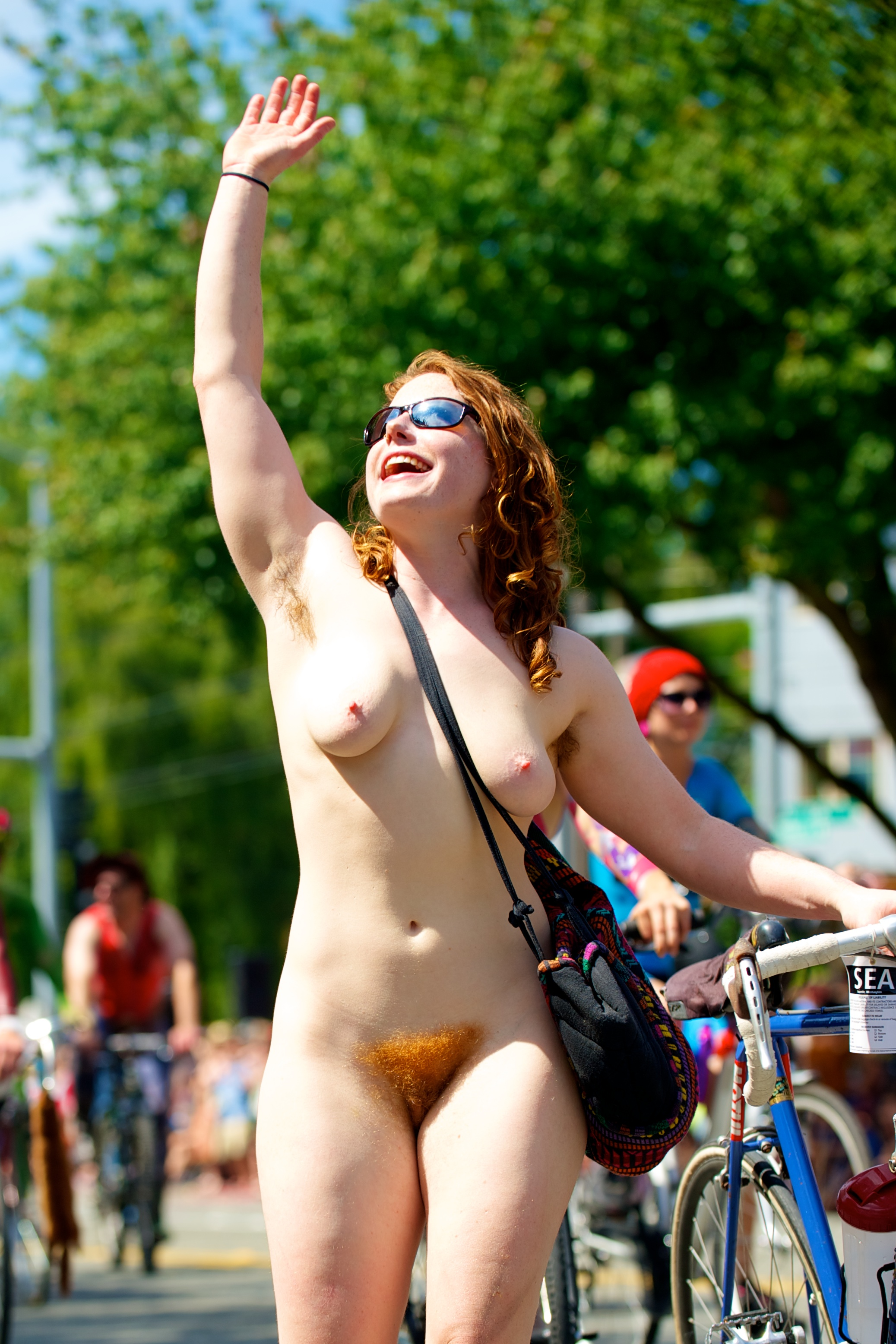 Fremont Solstice Parade 2013.